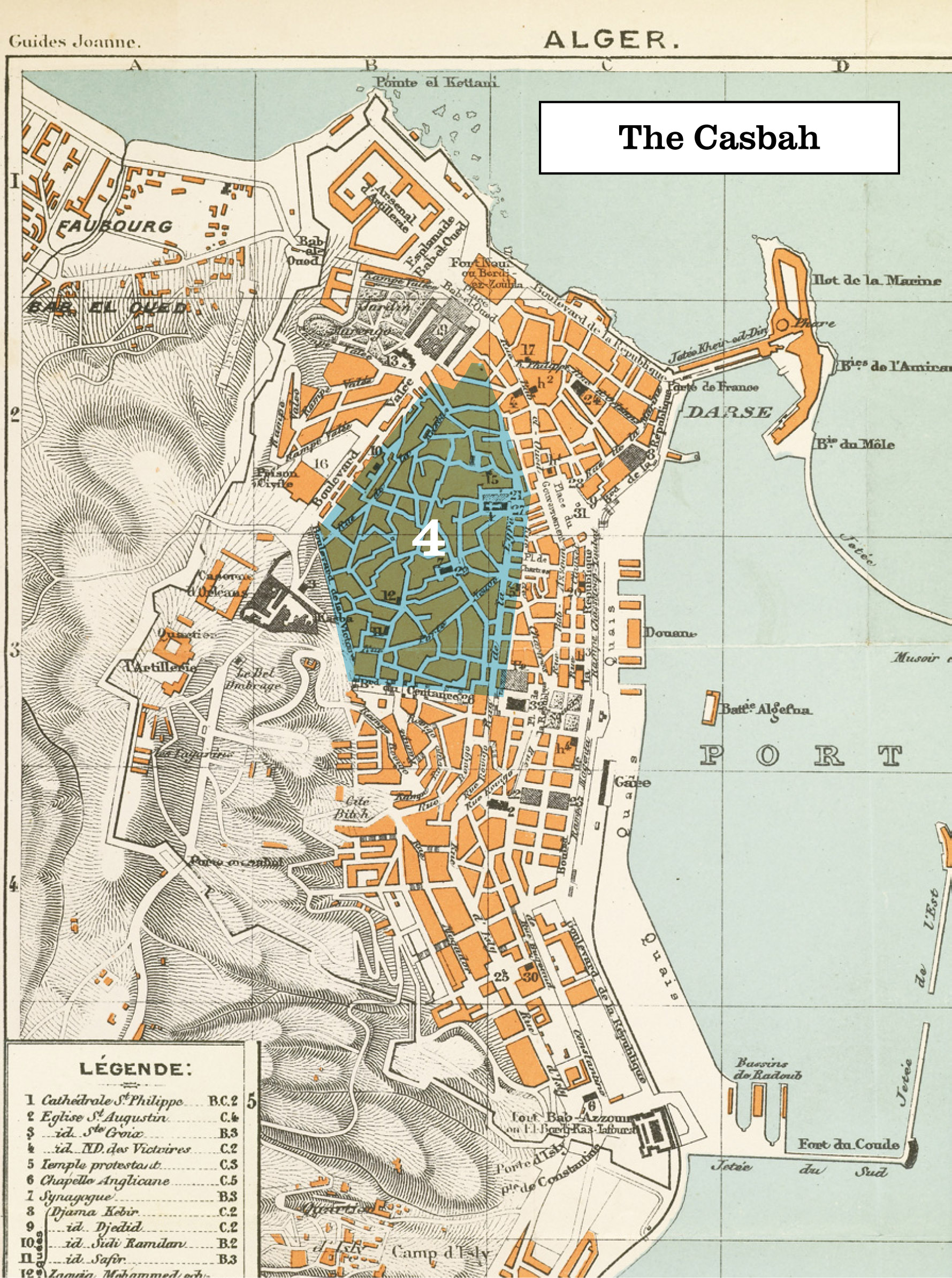 Plan of Algiers highlighting the Casbah area. Engraving from Louis Piesse, Algérie et Tunisie (Paris, 1888), published by Hachette et Cie (Paris)